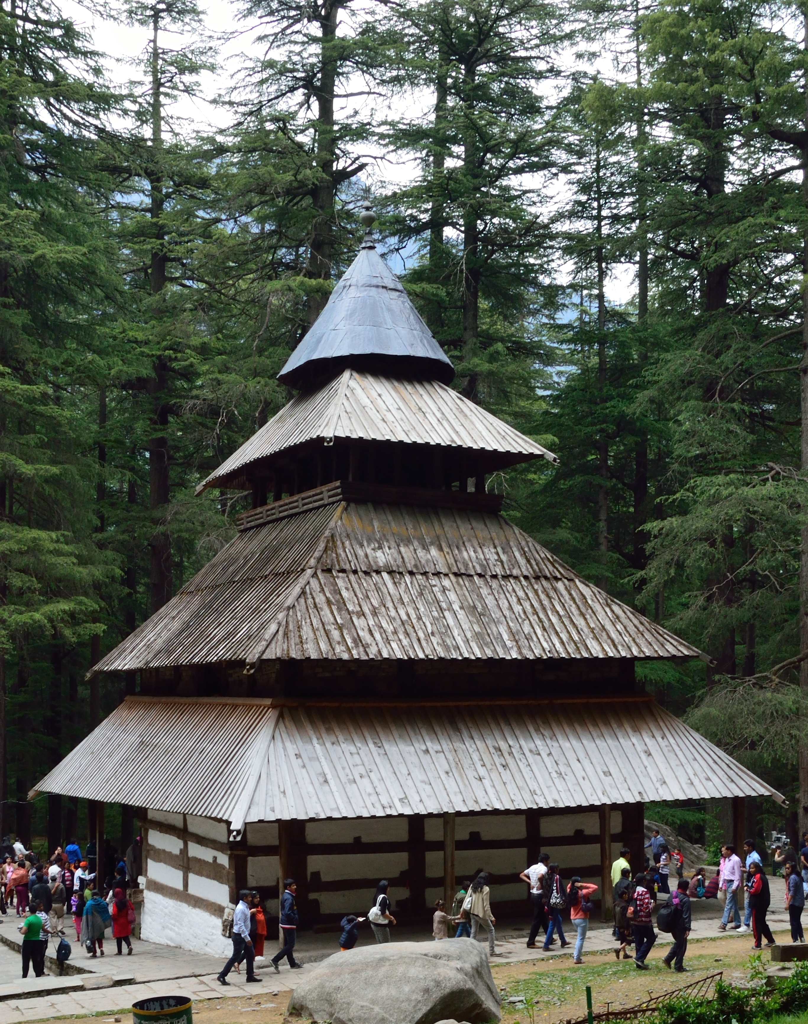 The Hidimba Devi Temple also known as the Hadimba Temple in Manali, Kullu, Himachal Pradesh. This photograph has been uploaded during the 'Wiki Loves Monuments 2014' from India.